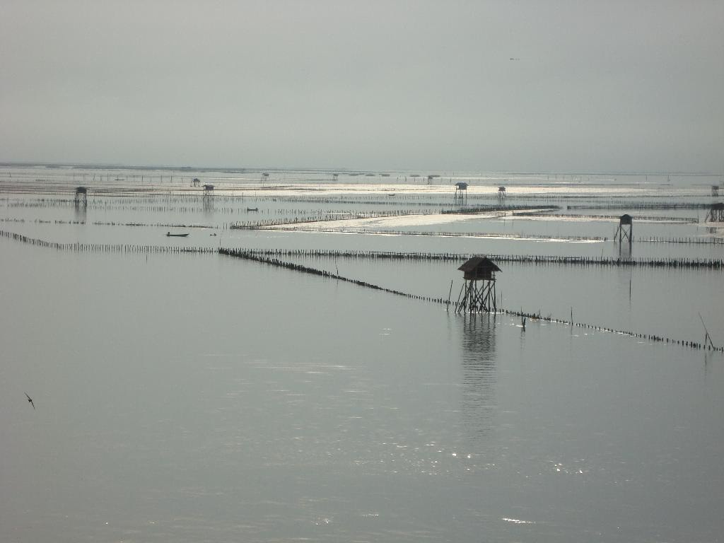 แนวชายฝั่งทะเลปากอ่าว